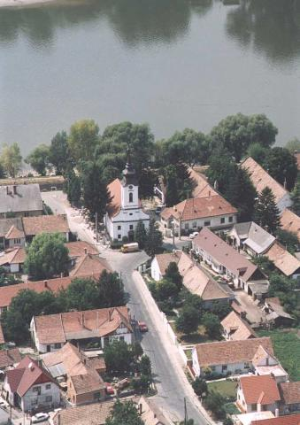 Pócsmegyer, Hungary, aerialphotography